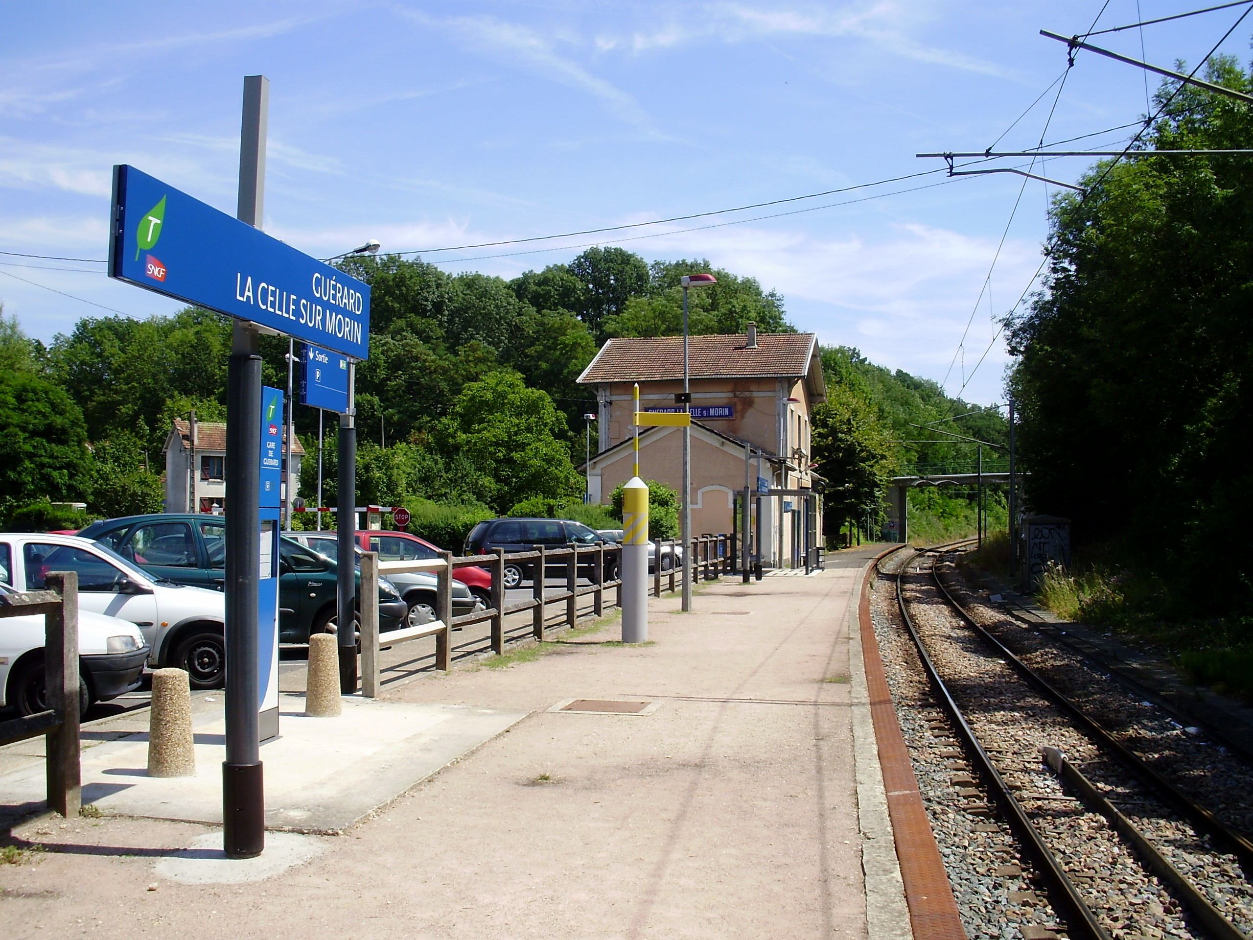 Guérard - La Celle-sur-Morin station, in Guérard, Seine-et-Marne, France (view of the single platform towards Coulommiers)